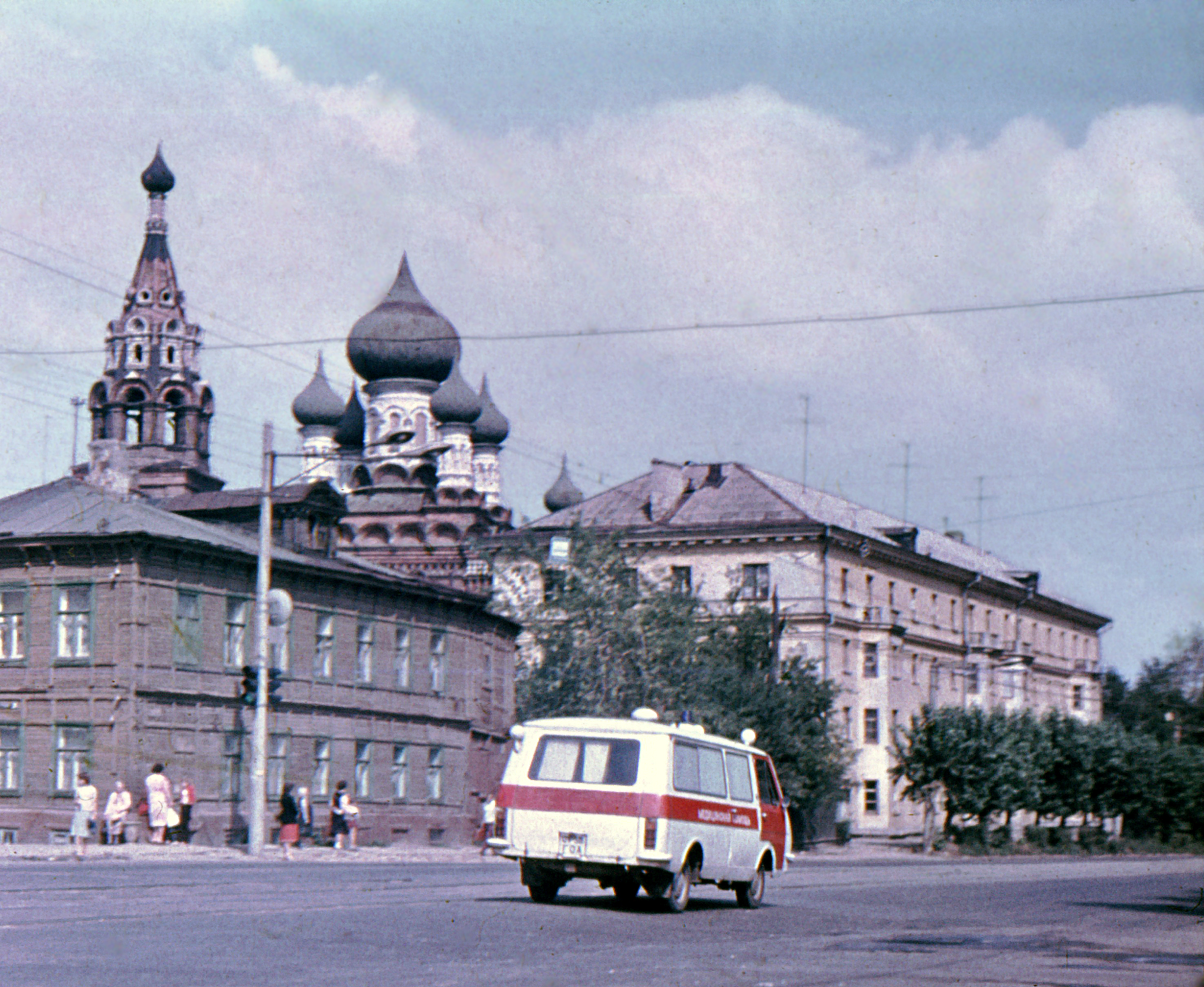 Gorky City. Belinsky (Belinskogo) Street